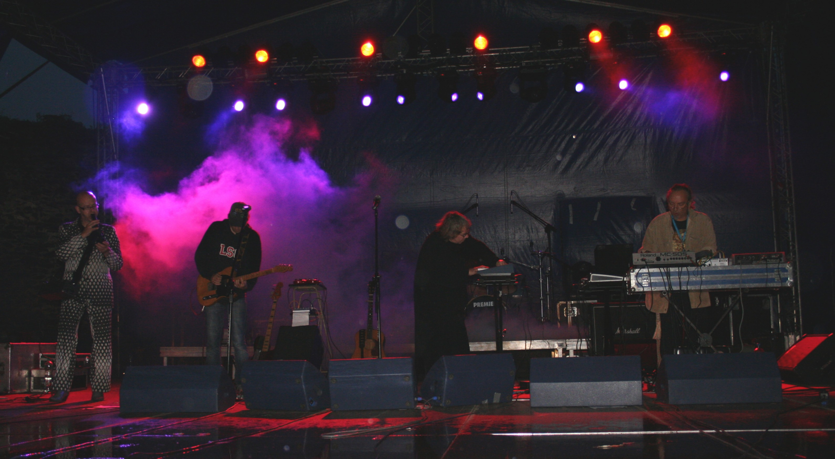 The Legendary Pink Dots, Castle Party 2007